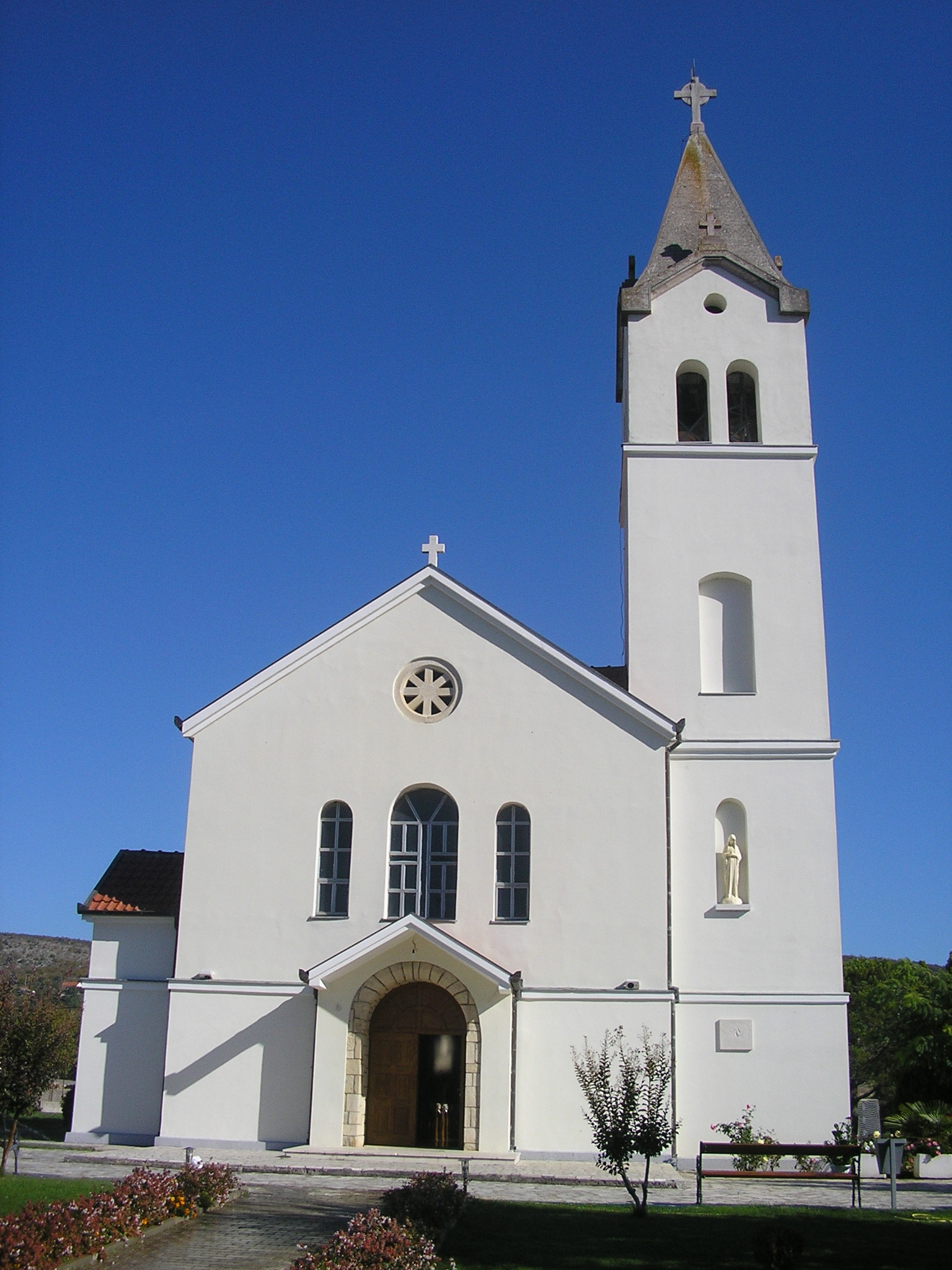 St. Peter and Paul church, Rotimlja (Stolac), BiH